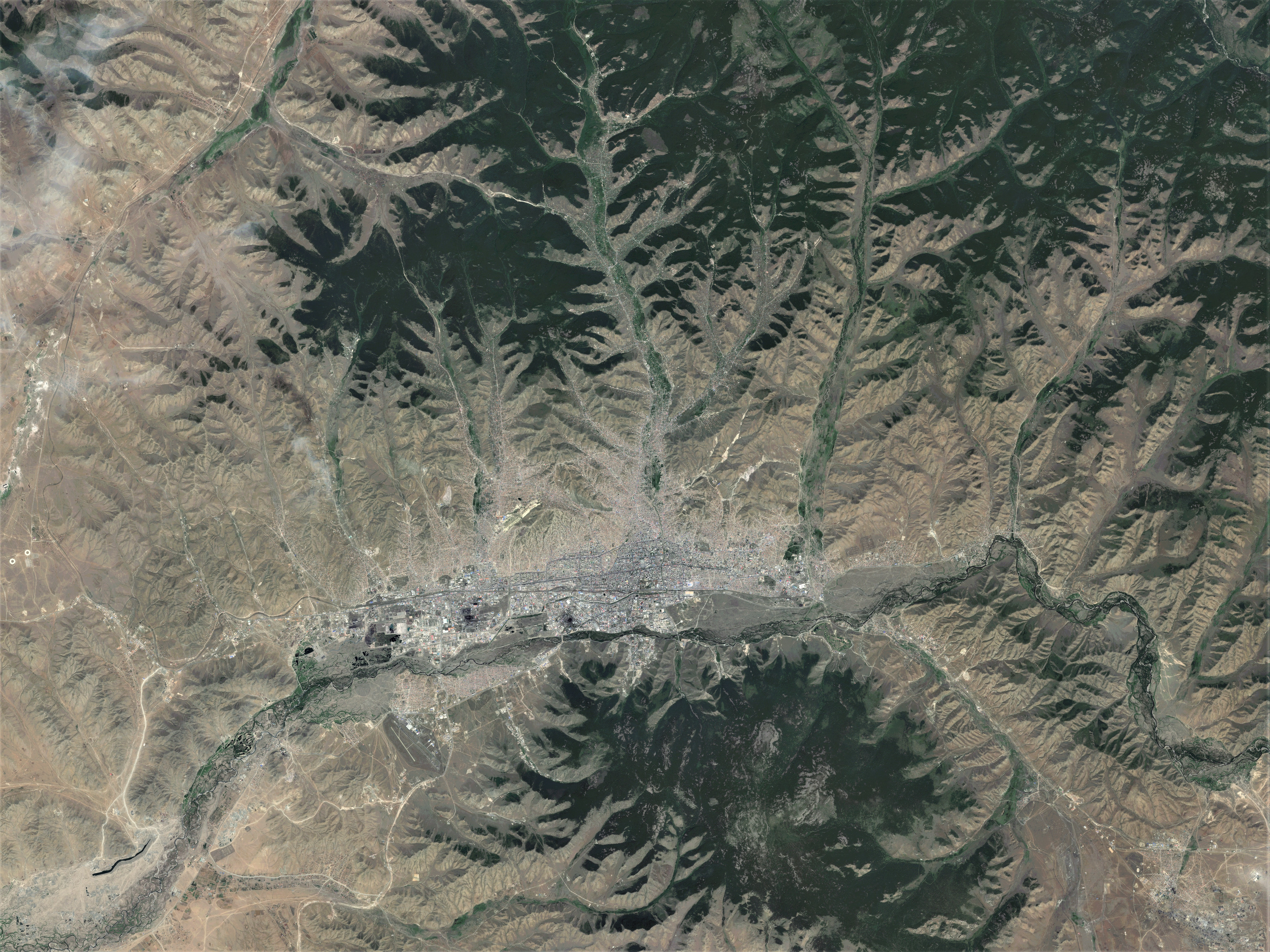 Ulan Bator (Ulaanbaatar) city, Mongolia, 09-JUL-2017,European Space Agency Sentinel-2 satellite image, pixel resolution 10 m, near natural colours